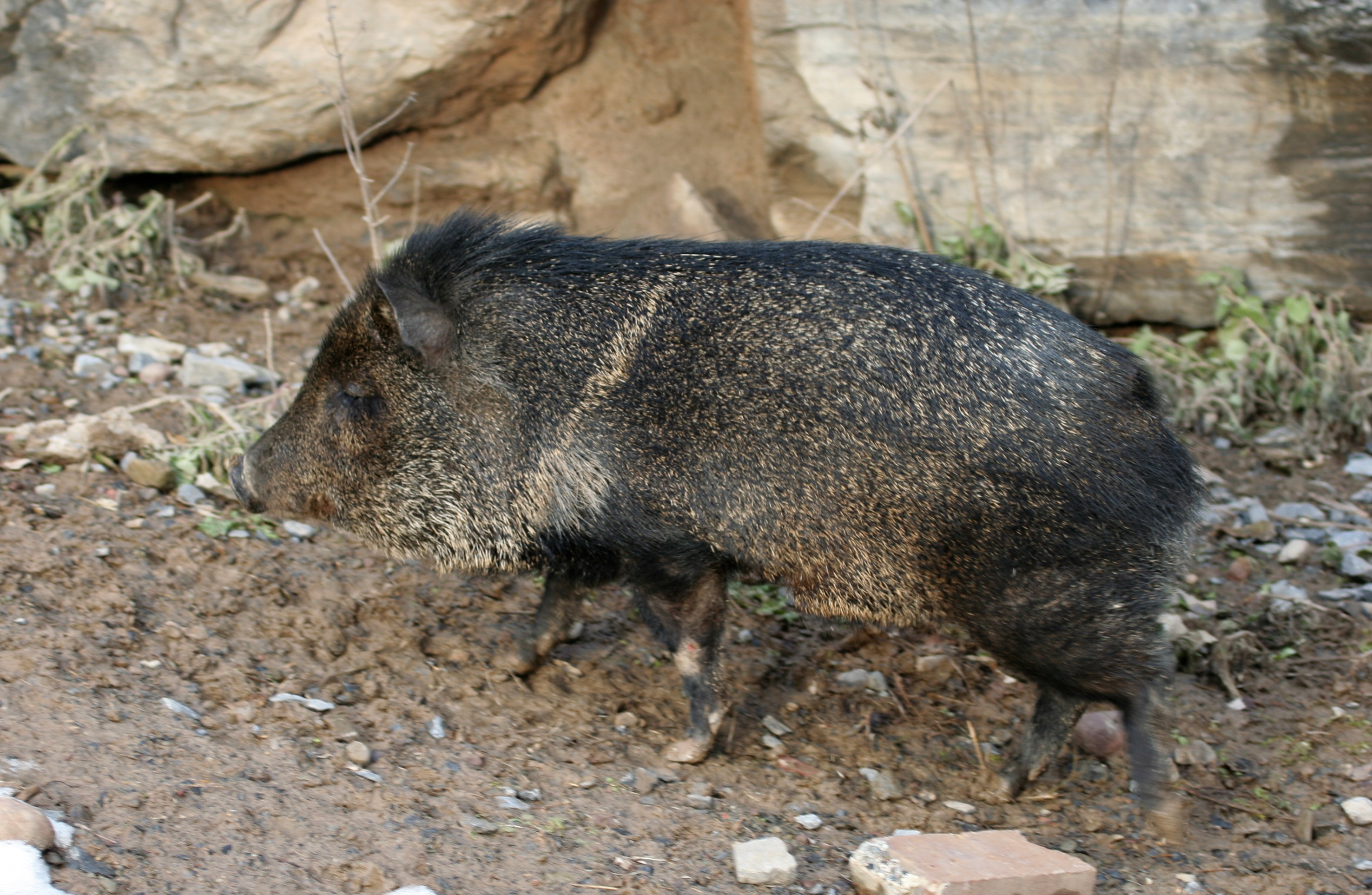 Collared Peccary (Tayassu tajacu, or Pecari tajacu) at the Rosamond Gifford Zoo, Syracuse, New York.